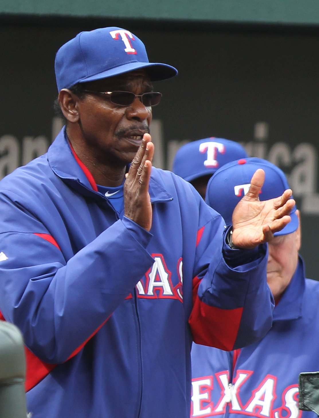 Rangers Manager Ron Washington at Baltimore Orioles vs Texas Rangers game April 10, 2011